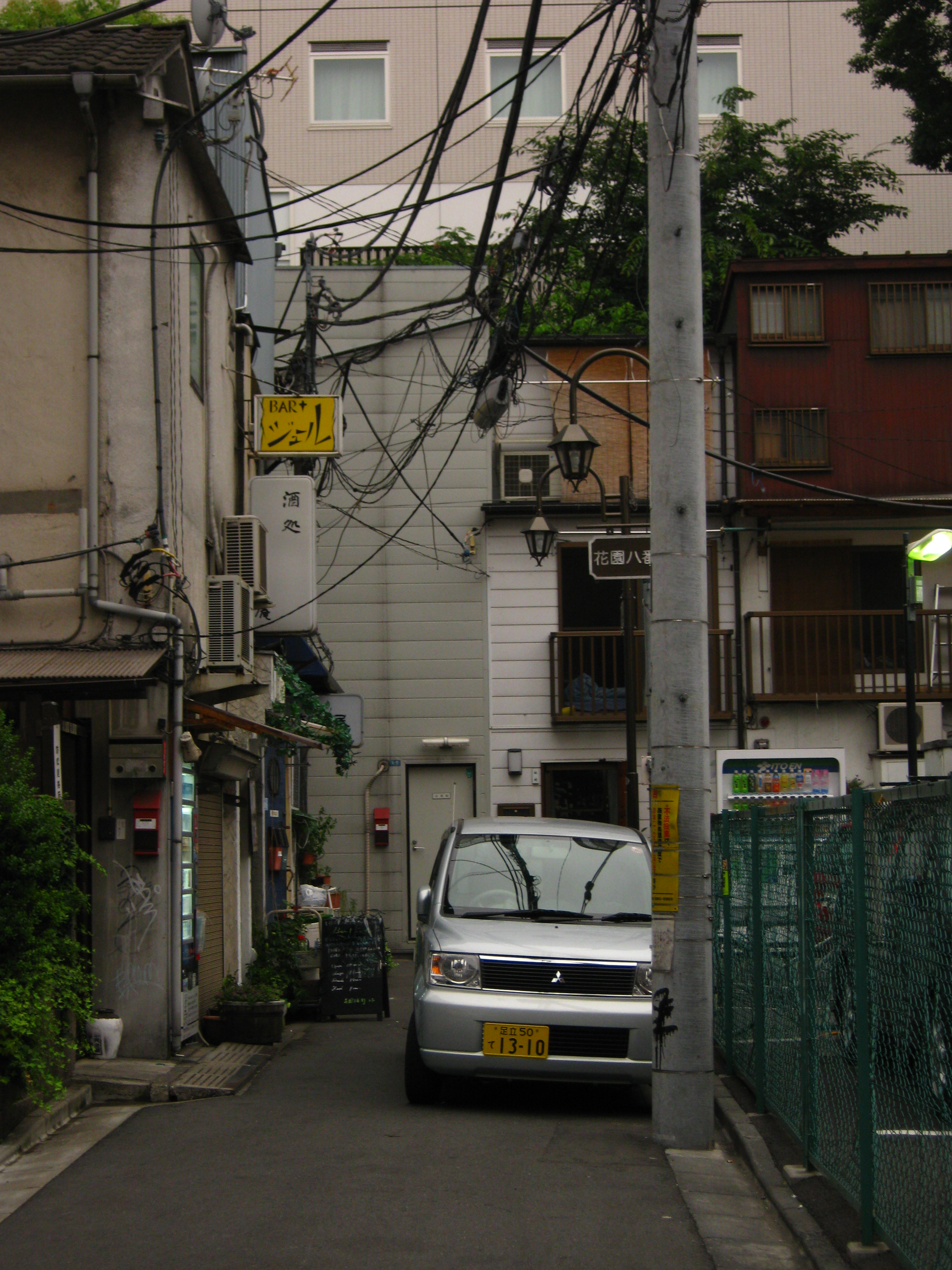 Golden Gai